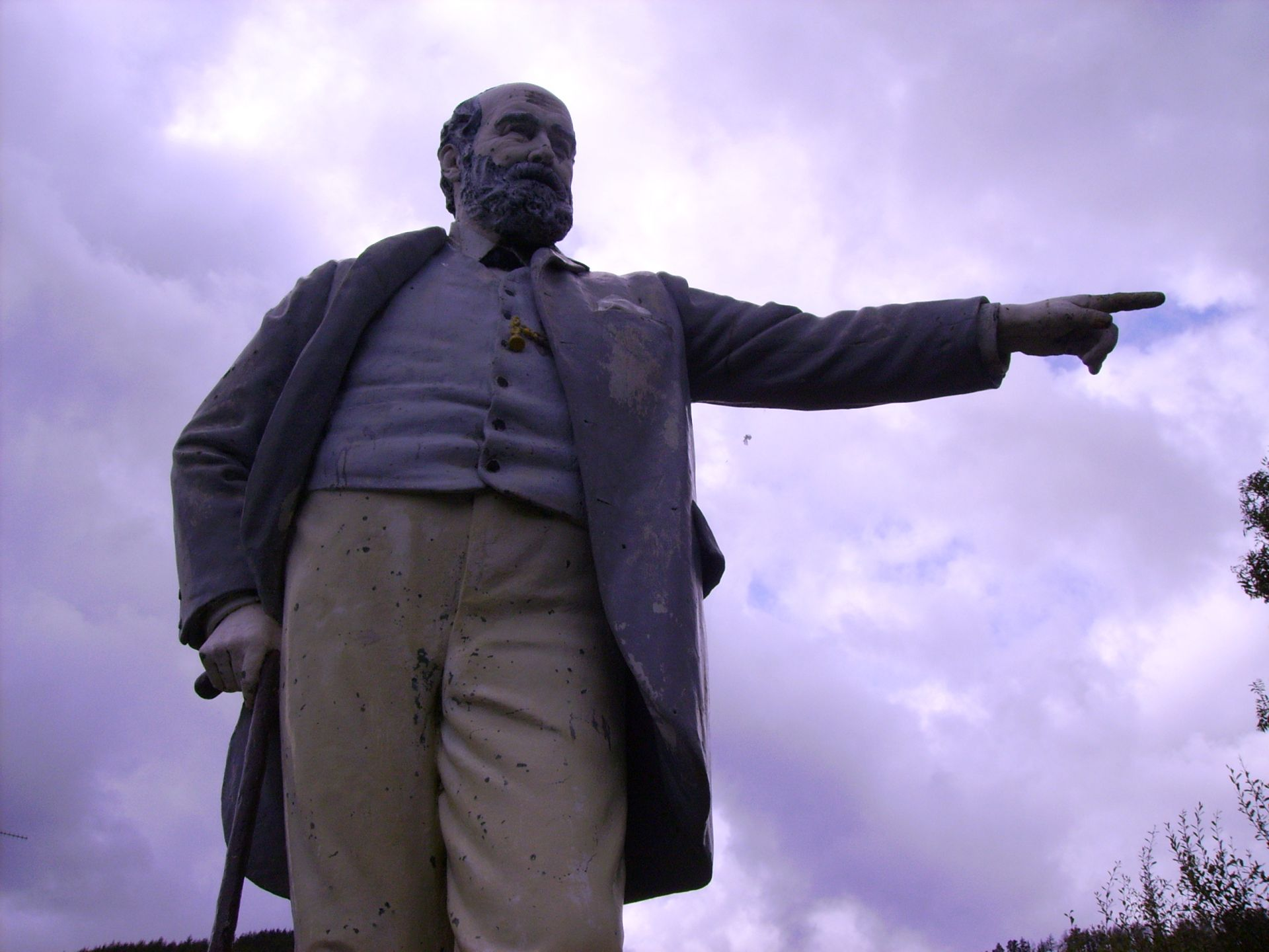 Statue of mineowner Archibald Hood in Llwynypia